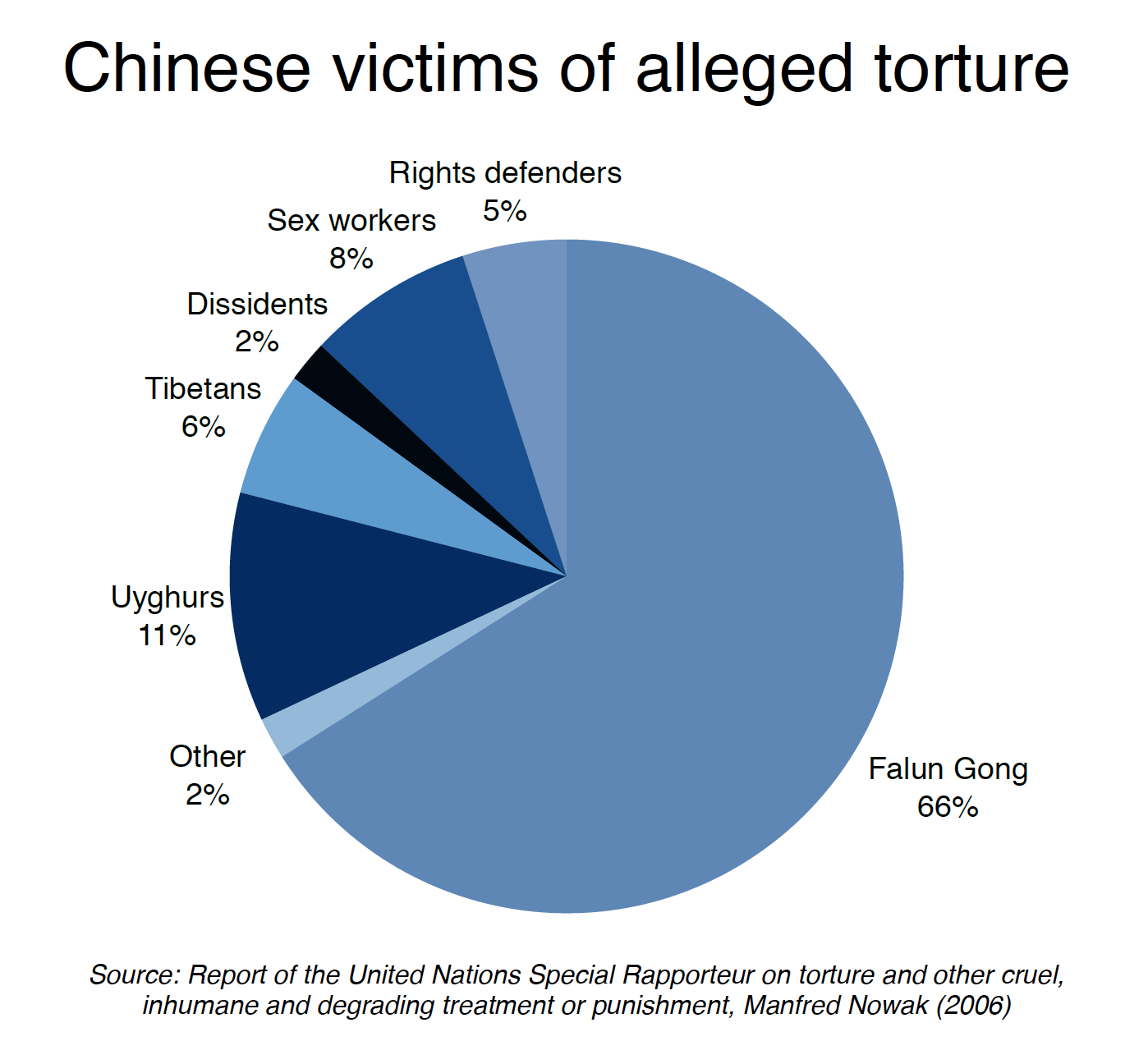 This chart shows a breakdown by category of all the cases of torture in China that were reported to the United Nations as listed in a 2006 report.